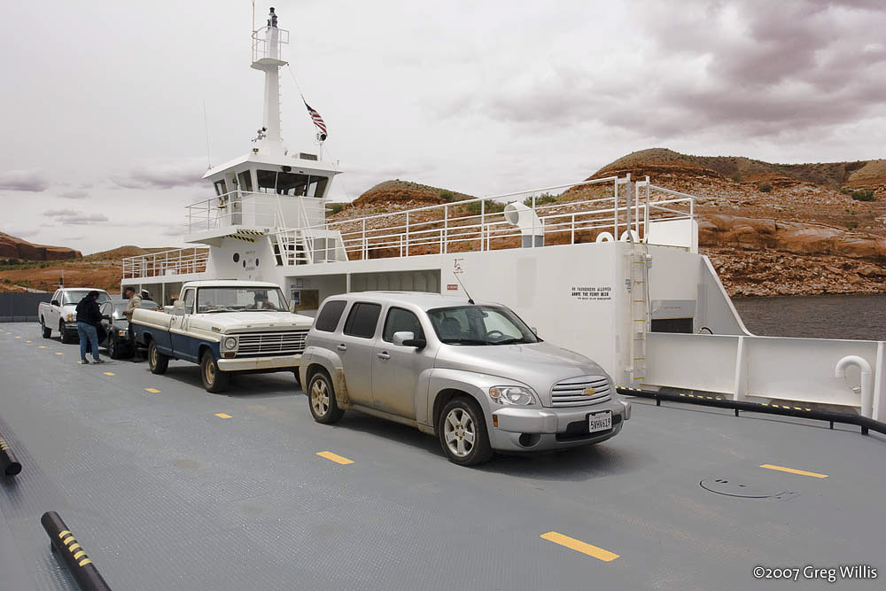 Halls Crossing - Bullfrog Ferry, Lake Powell